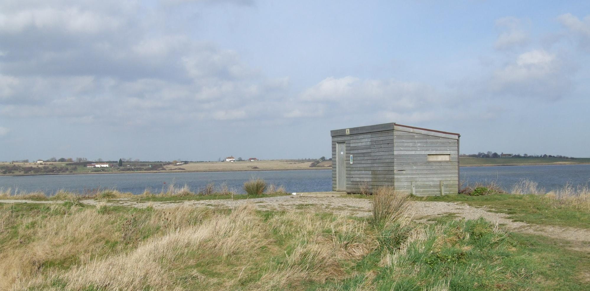 Oare, Kent is a village in Kent on the west bank of the Oare Creek, near Faversham.To the north of the village are the Oare Marshes and the The Swale. The Swale, at the mouth of the Oare Creek, a Kent Wildlife Trust birdwatching hide, and Harty on the Isle of Sheppey.